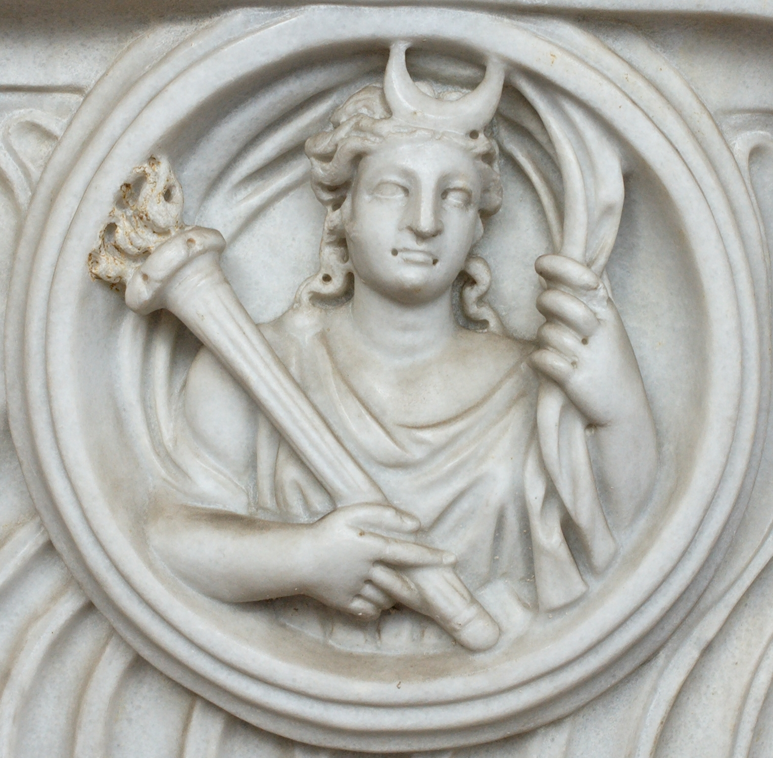 Bust of Selene in a clipeus, detail from a strigillated lenos sarcophagus. Roman artwork.